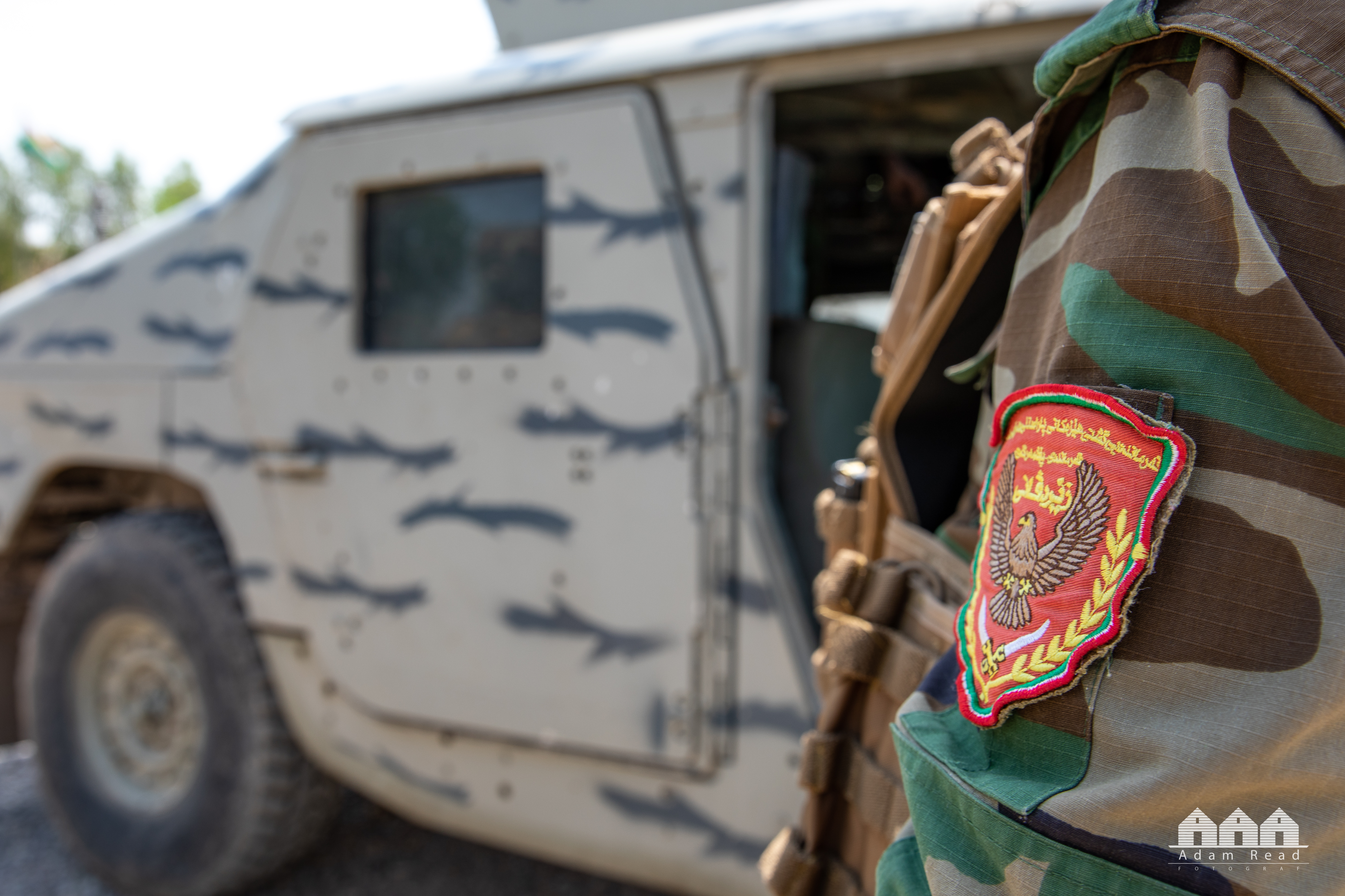 Zeravani Commandos